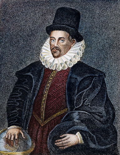 Painting of William Gilbert (1544 - 1603)